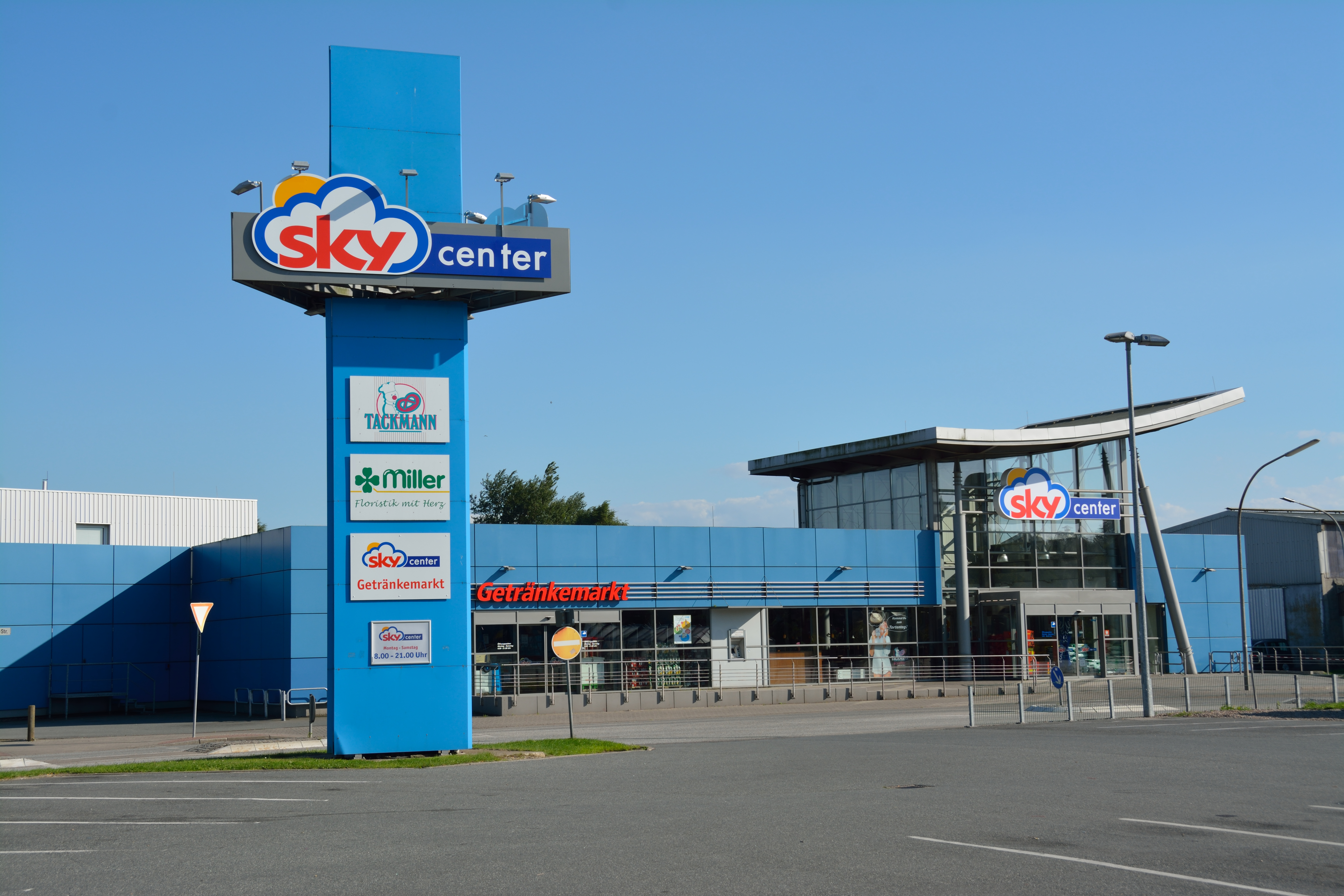 Das sky-center in Itzehoe